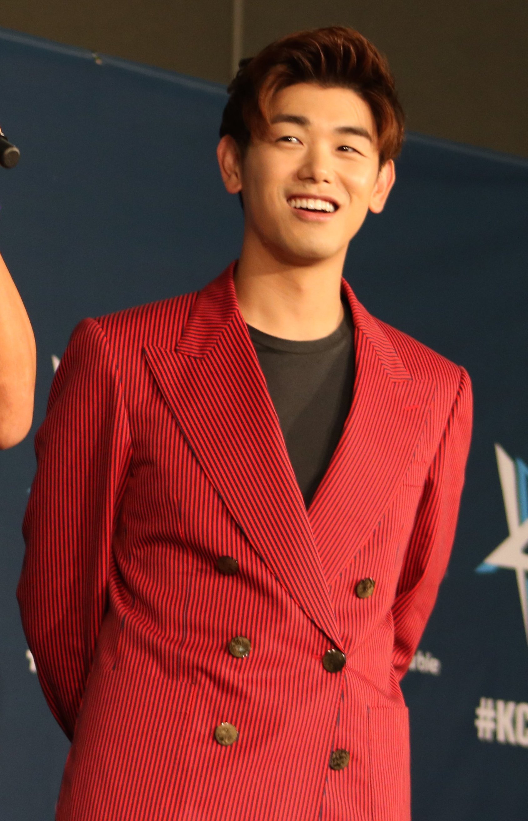 Eric Nam at the KCON LA 2016 Red Carpet